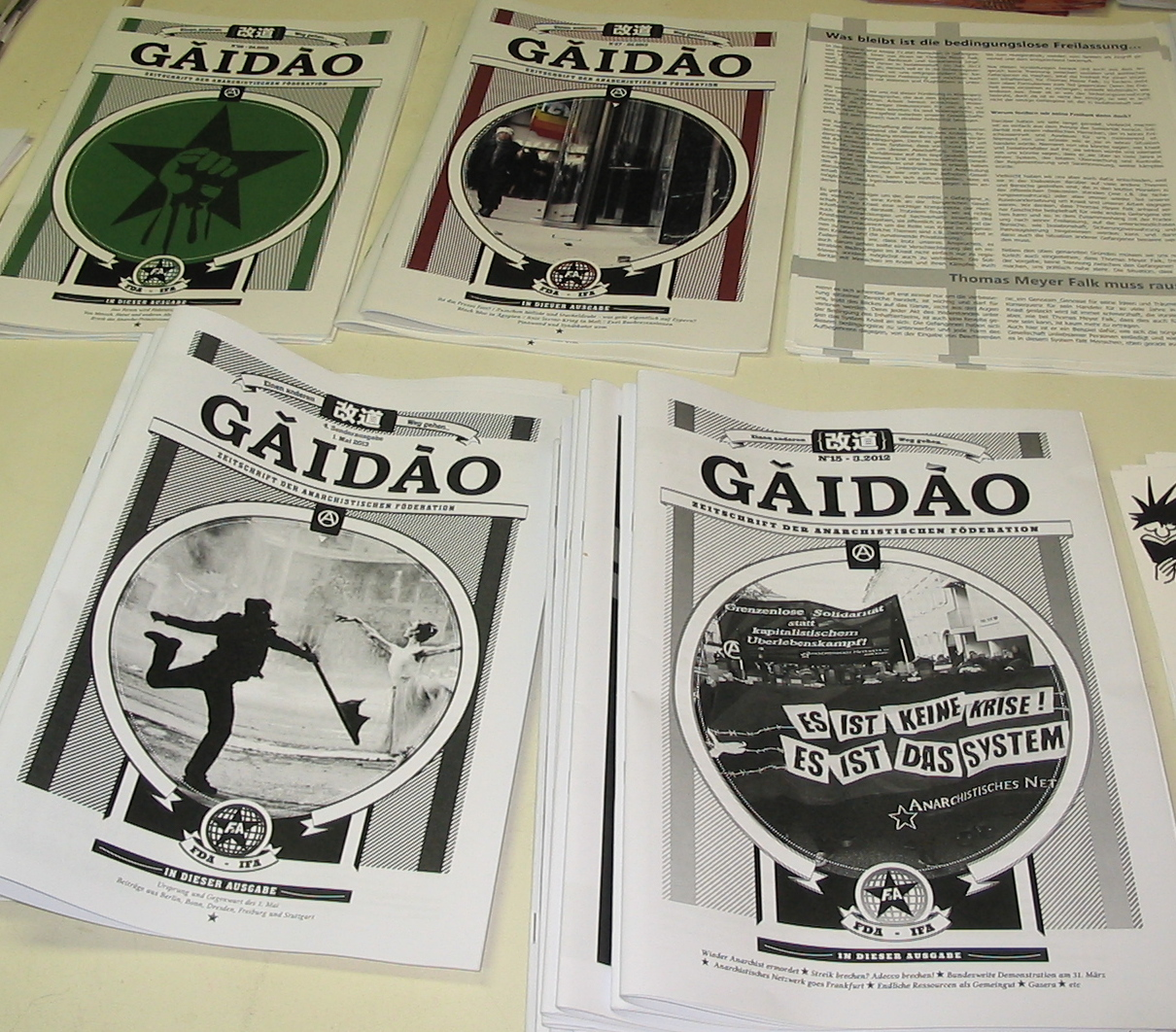 Gǎidào, magazine of the Ferderation of German language anarchists (FdA)